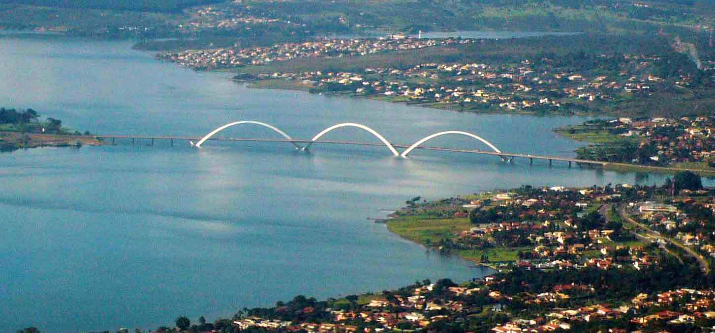 Aereal view Juscelino Kubitschek bridge (Ponte JK), crosses Lake Paranoá in Brasília, Brazil.